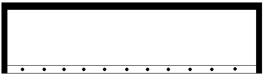 Stoa